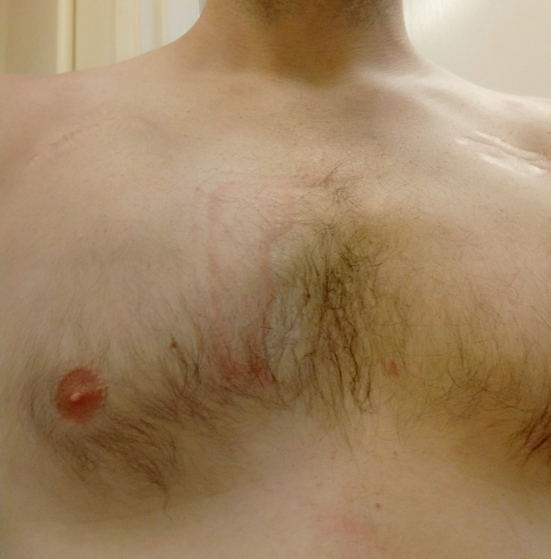 The 'burn' mark left after a electrical cardioversion at harefield hospital august 20th 2018. dc cardioversion aftermath after one day. also one on the back.